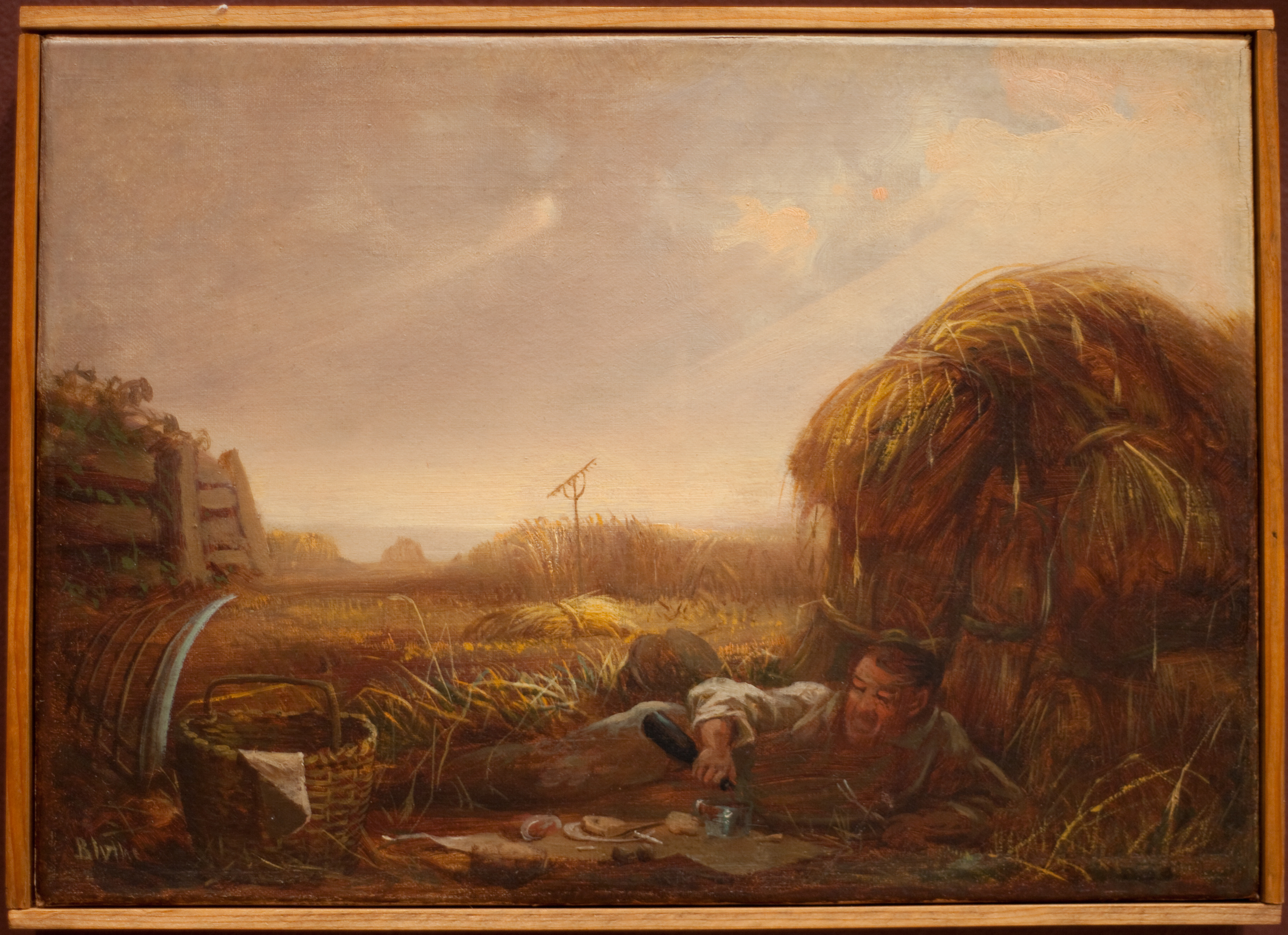 Man Eating in a Field by David Gilmour Blythe, on display at the Carnegie Museum of Art in Pittsburgh, Pennsylvania.